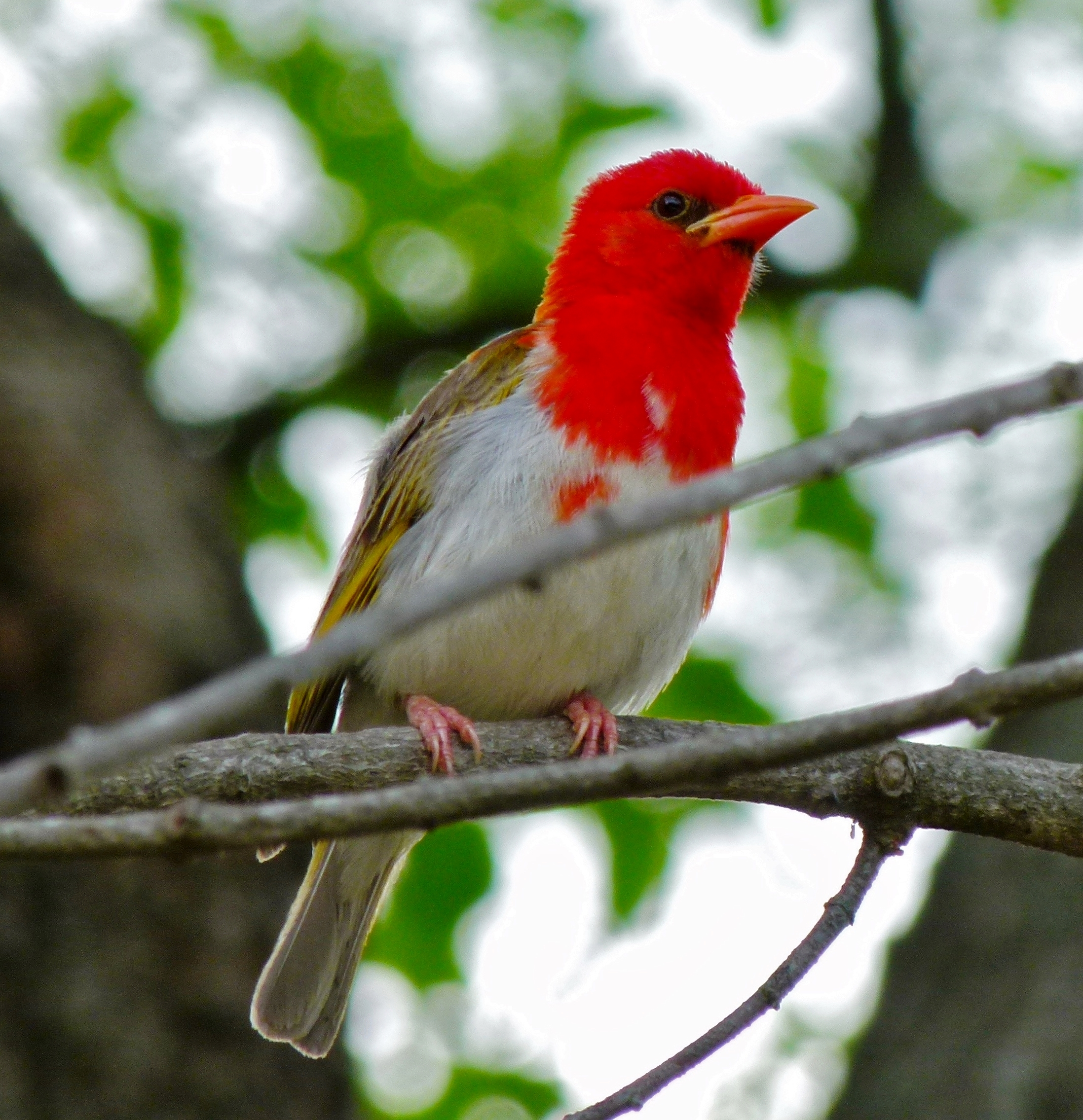 Stevenson-Hamilton Rock South of Skukuza, Kruger NP, SOUTH AFRICA